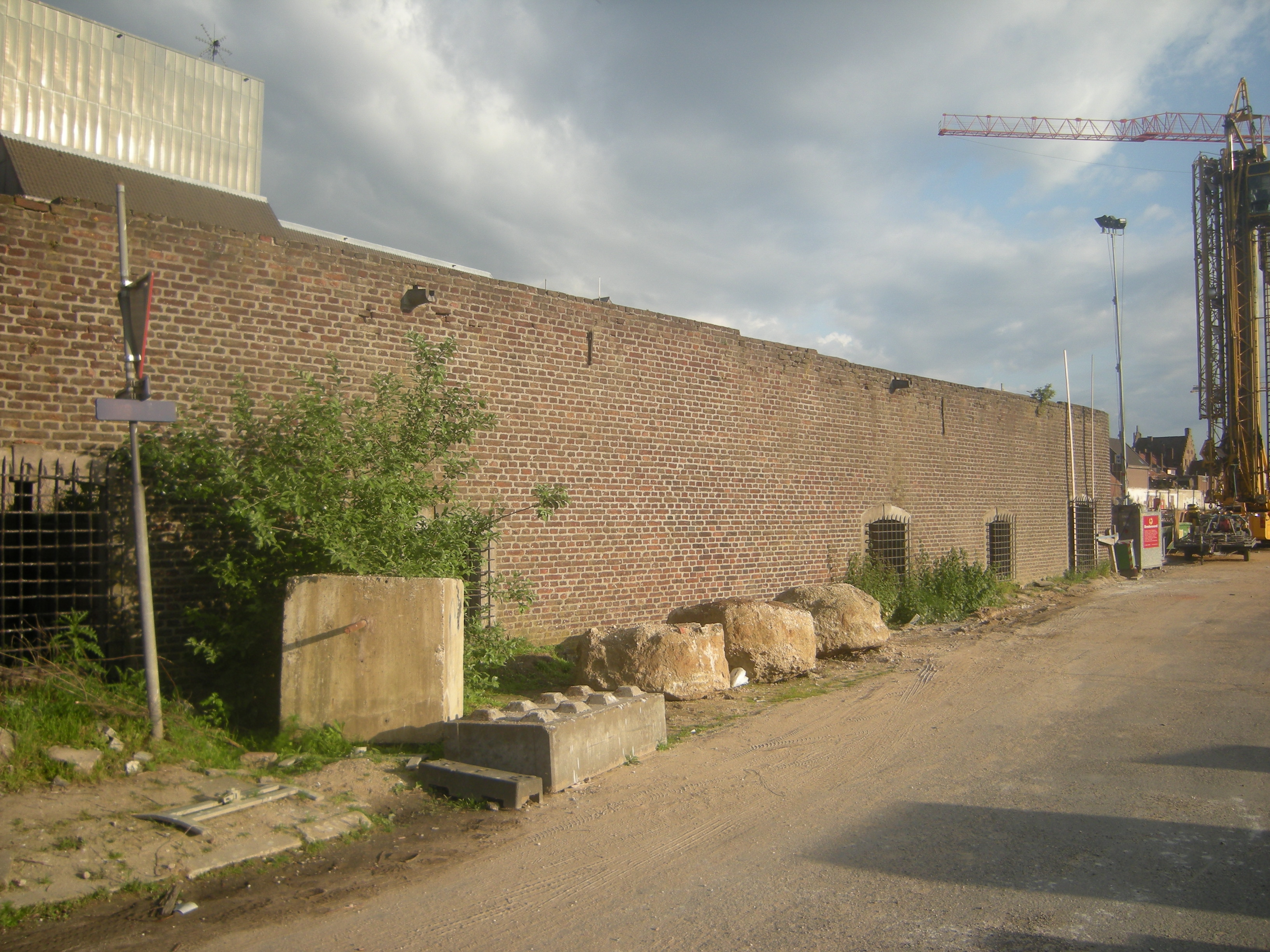 De Luif Venlo